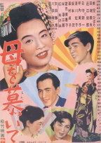 Movie poster for 1951 Japanese movie Haha wo shitaite (母を慕いて, lit. "Yearning for Mother").